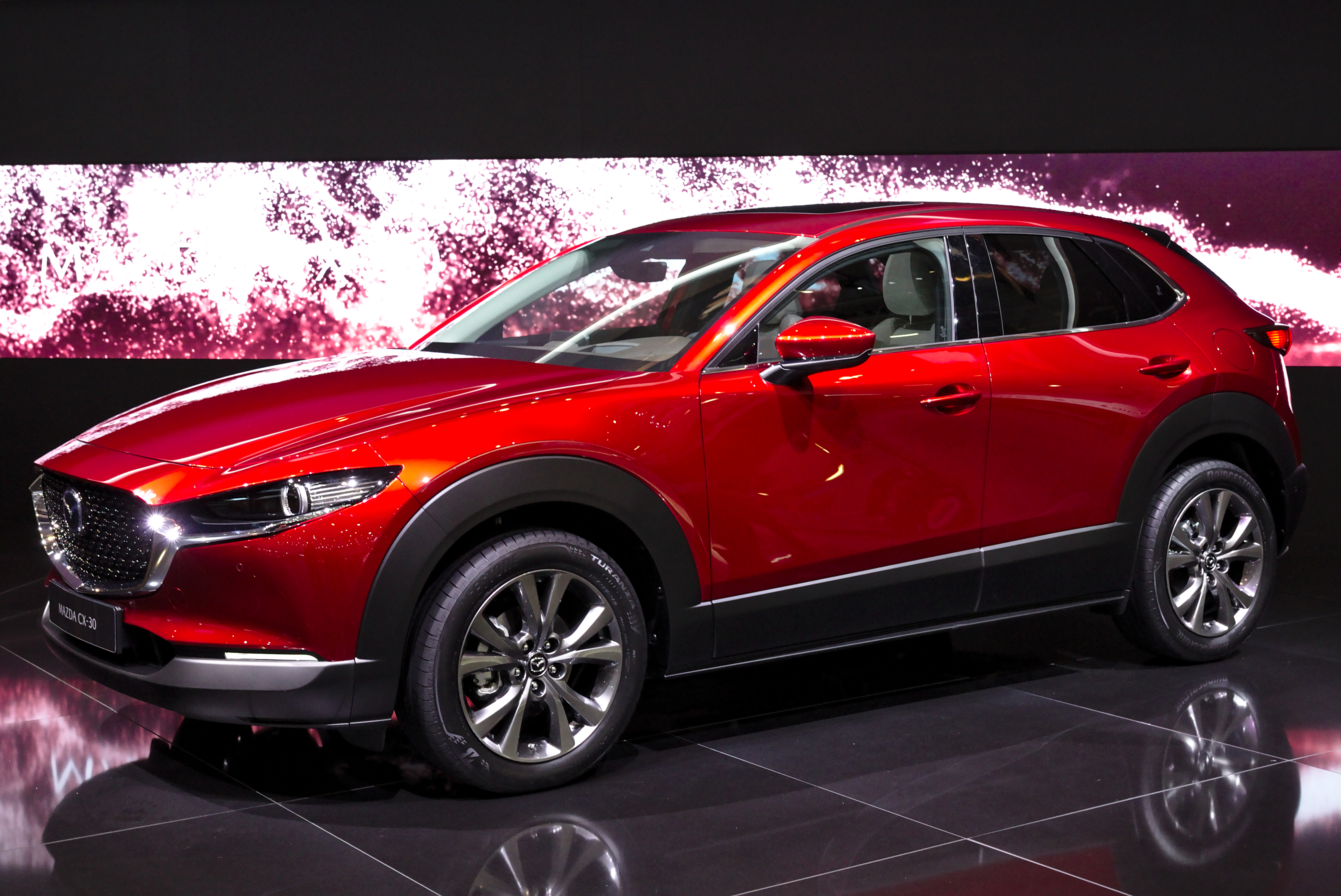 Mazda CX-30 at Geneva Motor Show 2019